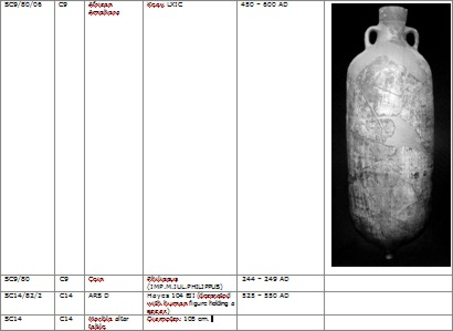 Significant materials recovered from the excavations of Building C, Sanitja (Menorca) 2